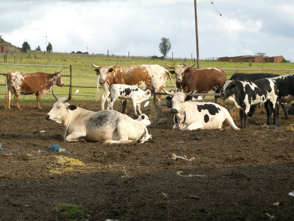 A herd of Nguni cattle.